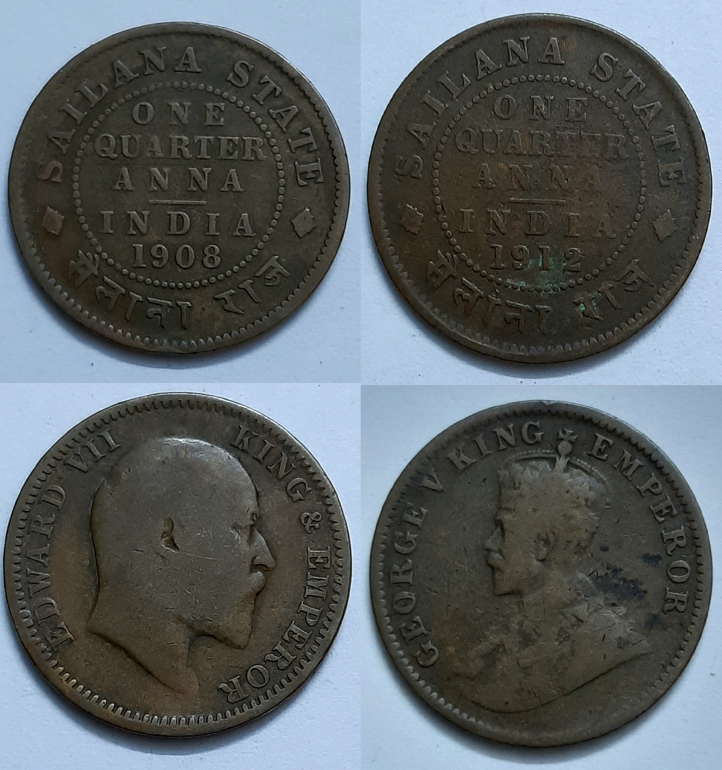 Coins of Sailana State, minted 1908 & 1912